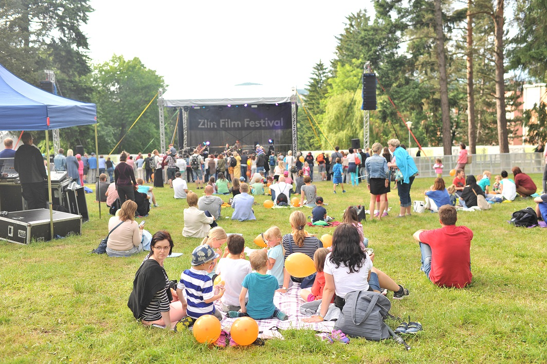 Open air place is a place for music concerts and open-air screenings